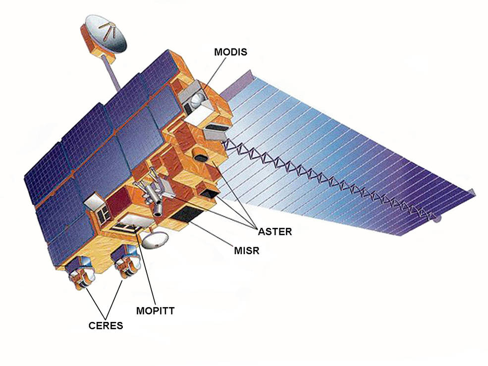 Artist's sketch of Terra spacecraft with instrument locations labeled.